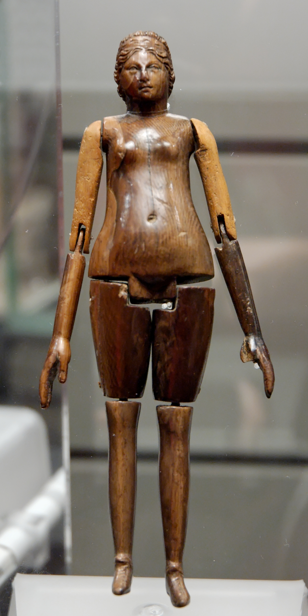 Doll. Coloured ivory, Roman work, second half of the 2nd century CE. From the sarcophagus of the Grottarossa mummy, Via Cassia Km 11.